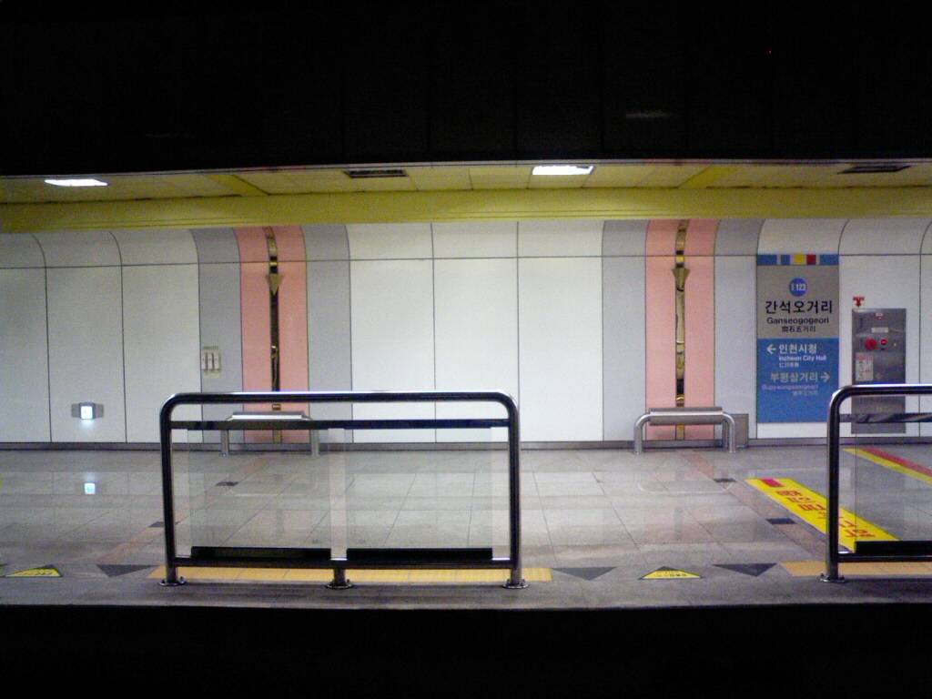 Incheon Line 1 Ganseogogeori Station